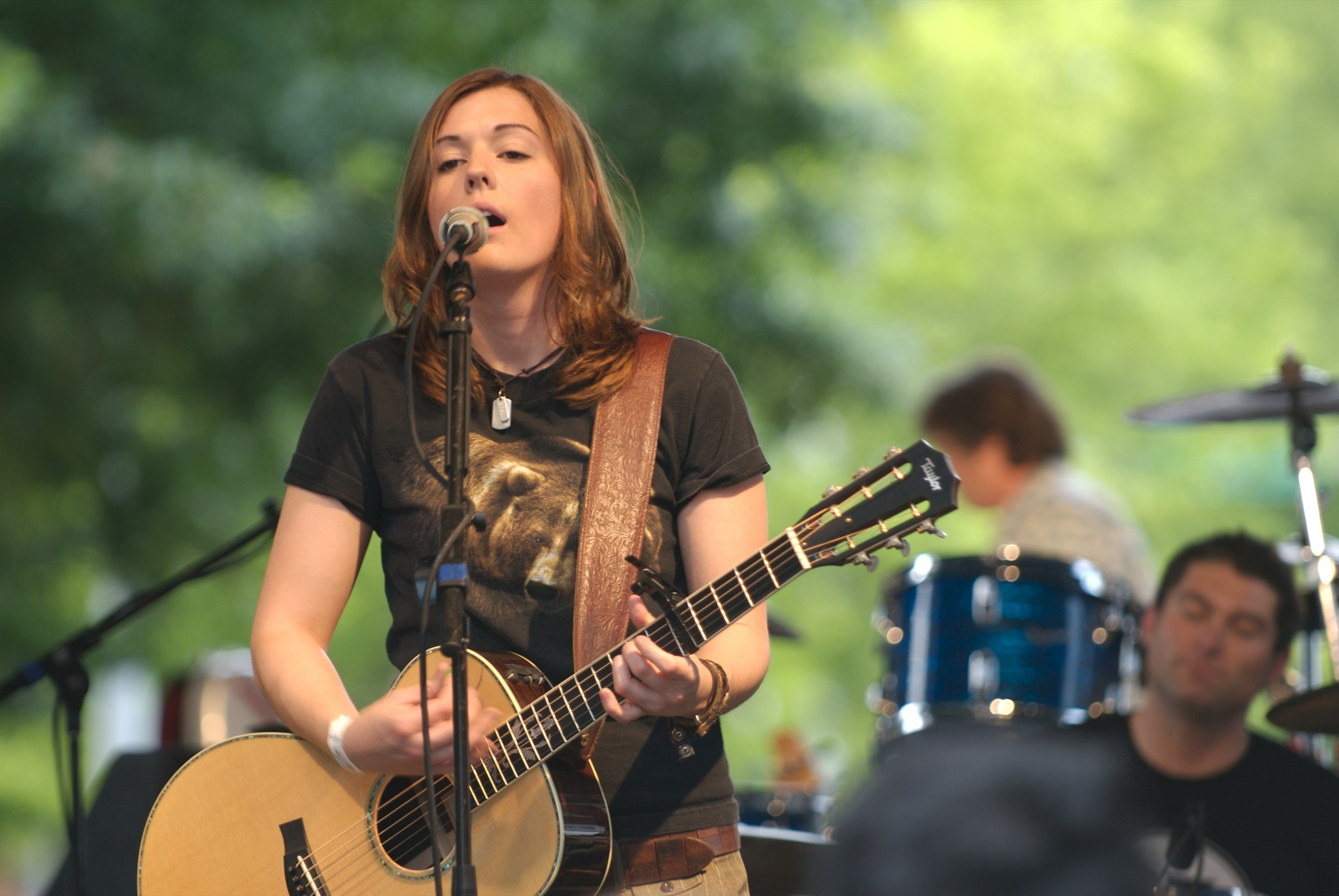 Brandi Carlile on Stage at CITY STAGES 2006